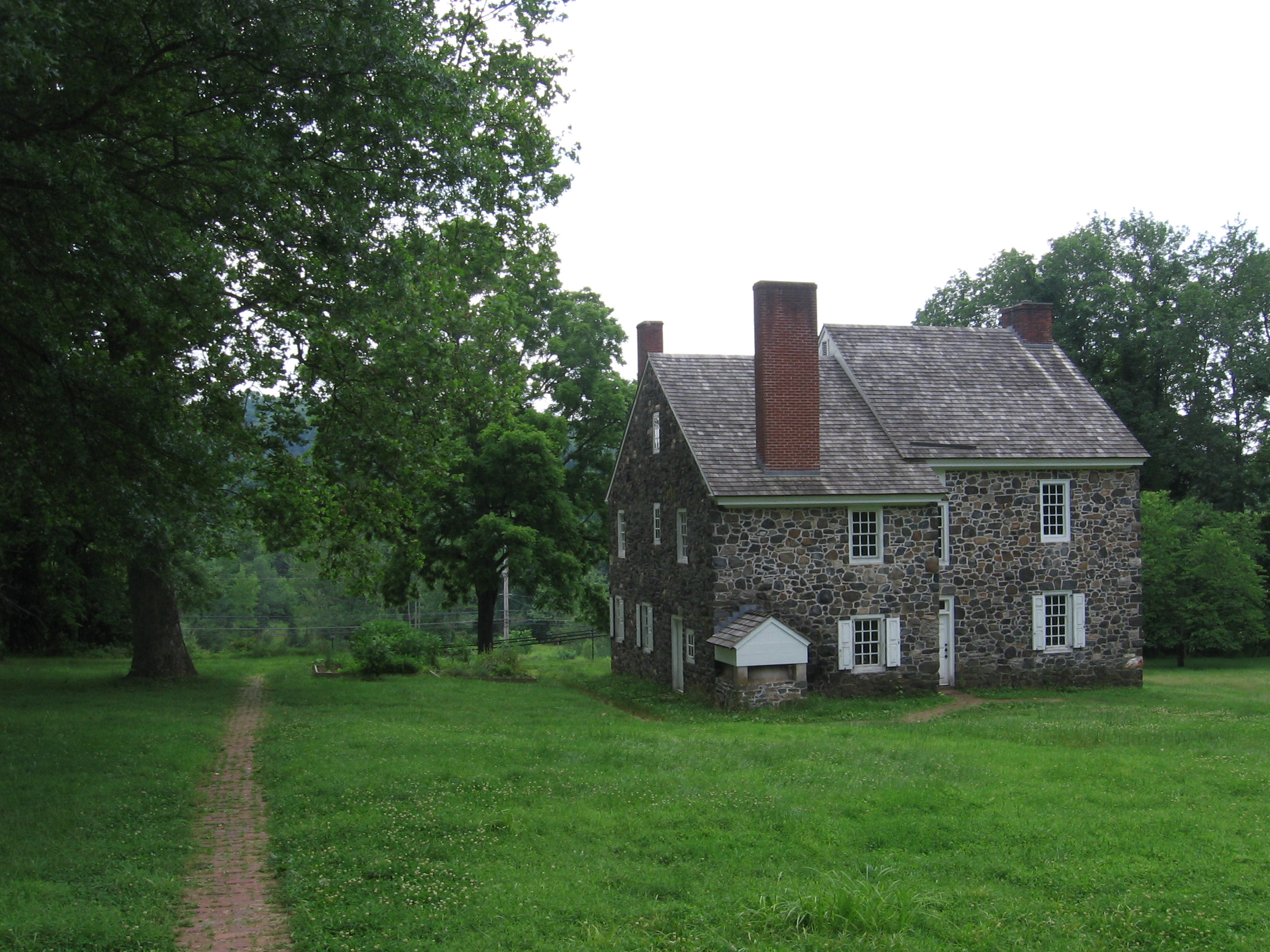 Brandywine Battlefield house where Washington stayed, Chadds Ford, PA